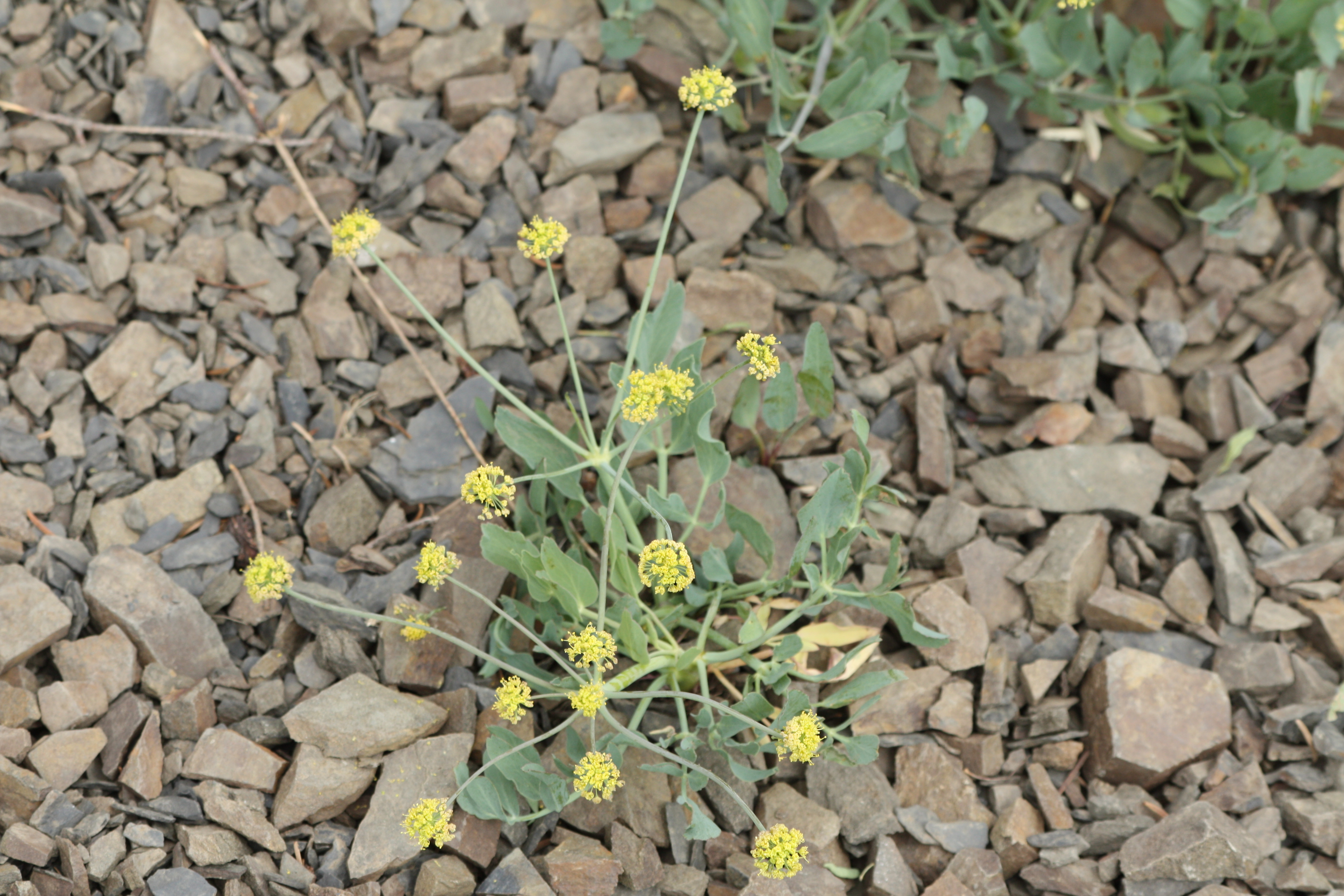 Barestem Biscuitroot, Indian-consumption-plant, Pestle Parsnip